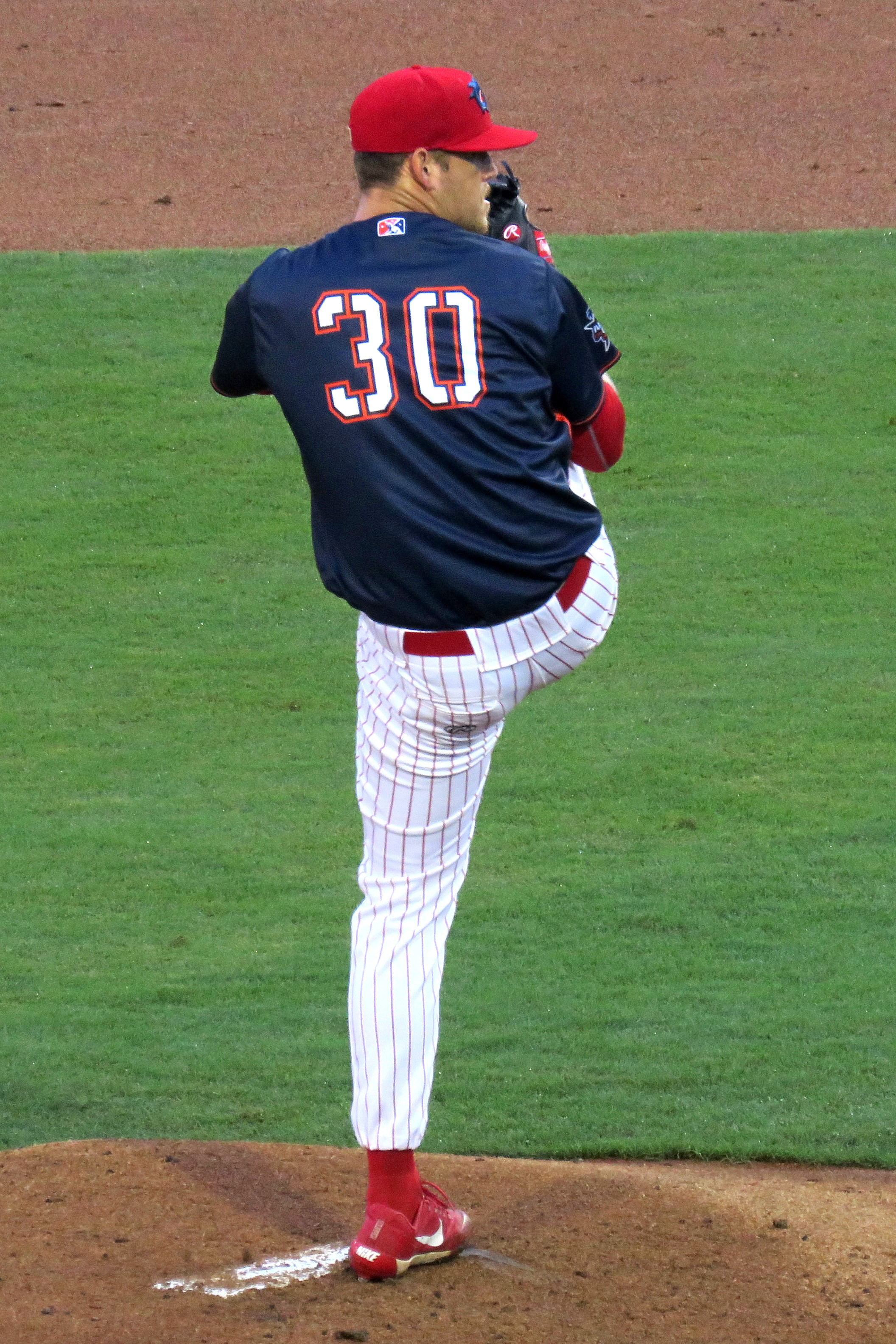 Cole Irvin pitching for the Clearwater Threshers in 2017